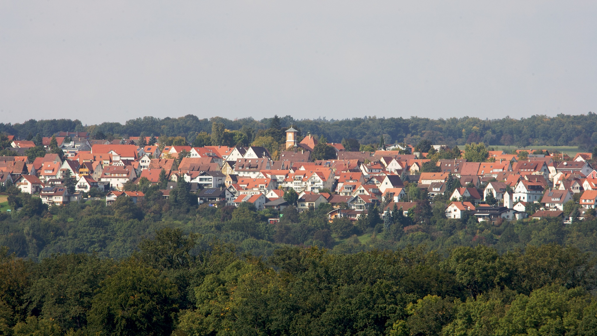 Pfrondorf view from Kusterdingen.